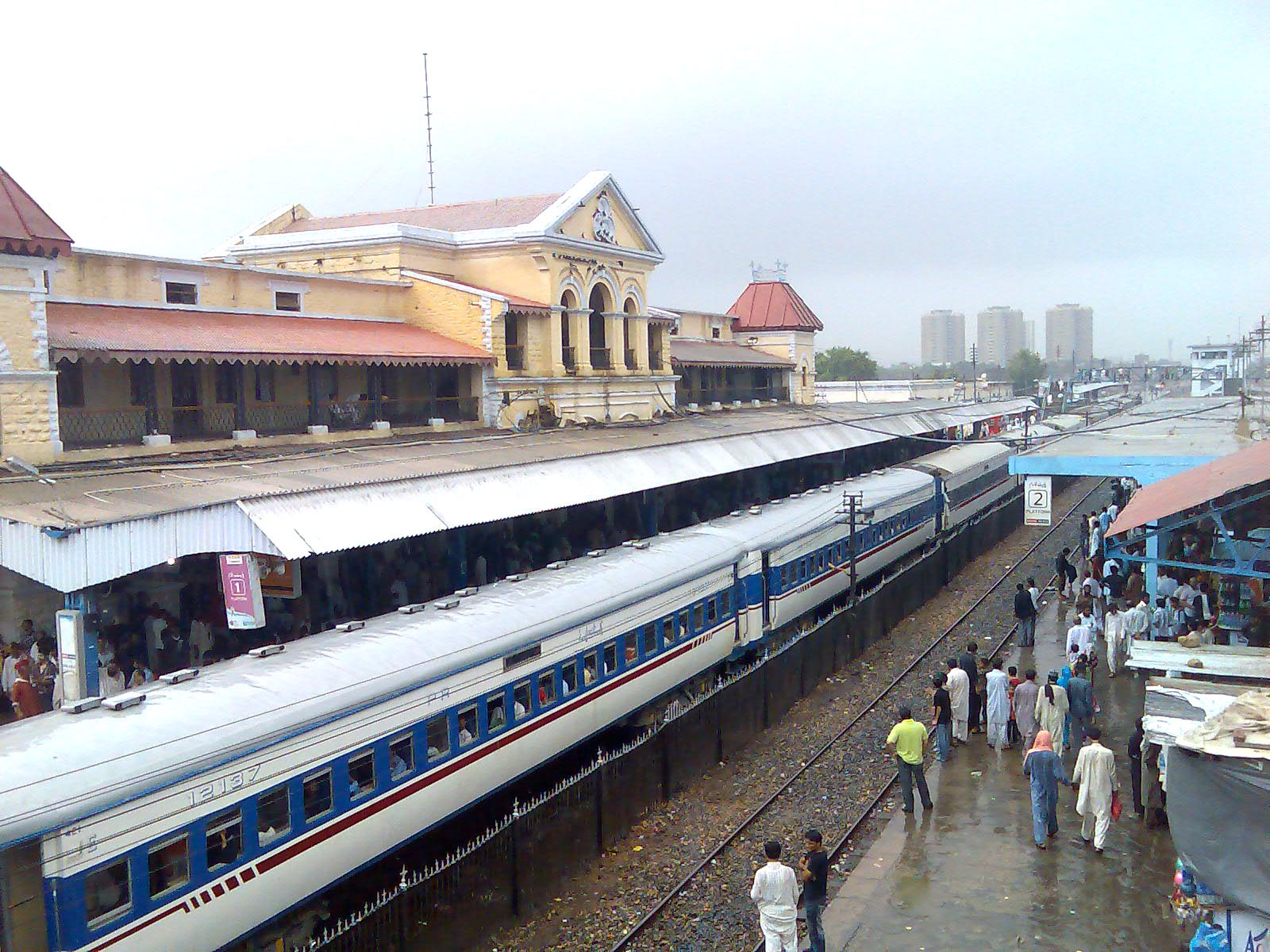 Karakoram Express departing to Lahore from Karachi Cantt. Station.